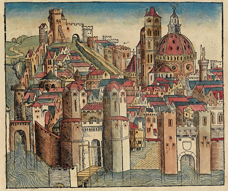 This is a part of a scan of an historical document: Title: Schedelsche Weltchronik or Nuremberg Chronicle